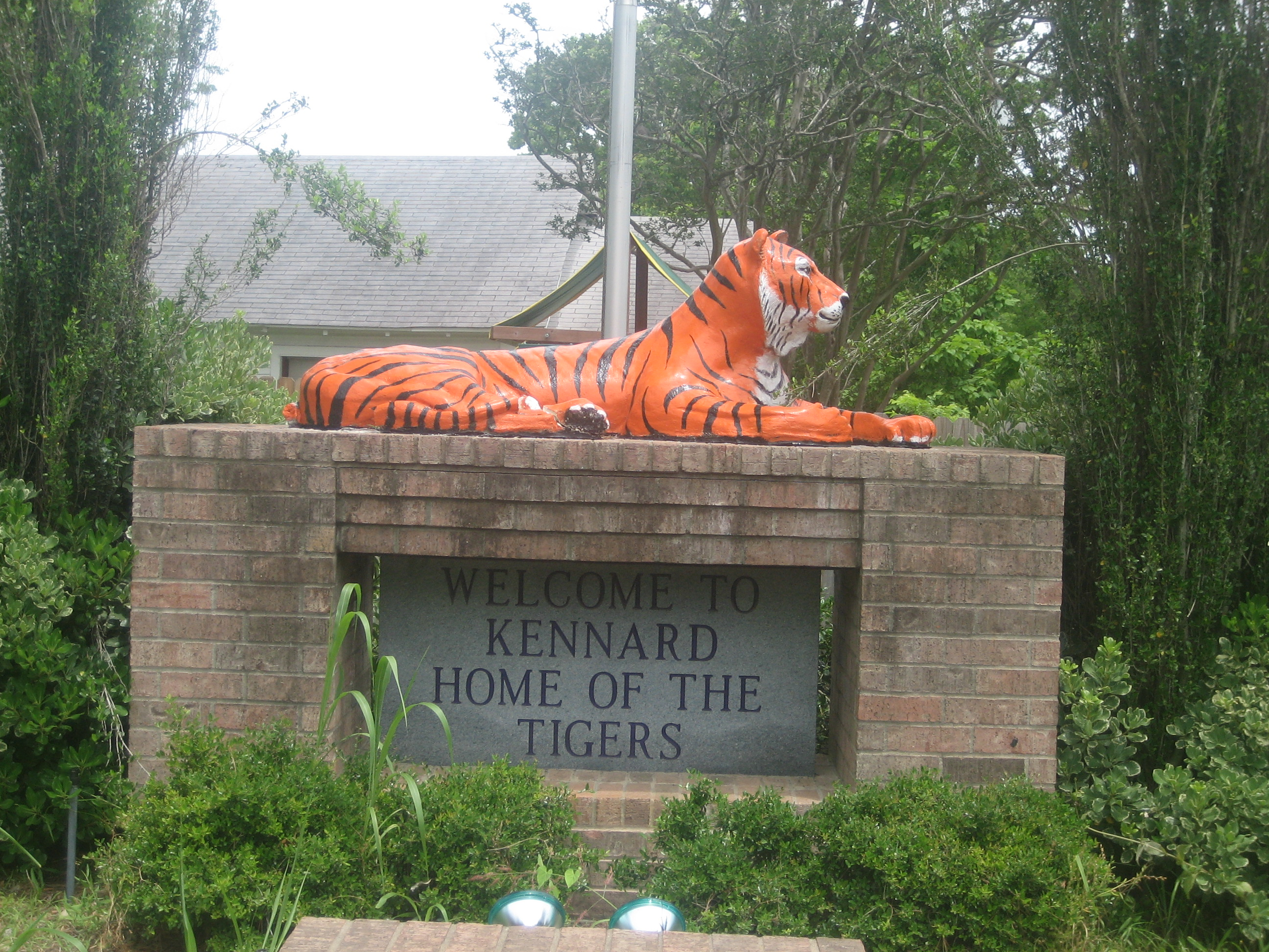 I took photo on May 27, 2009.Billy Hathorn (talk) 17:51, 31 May 2009 (UTC)